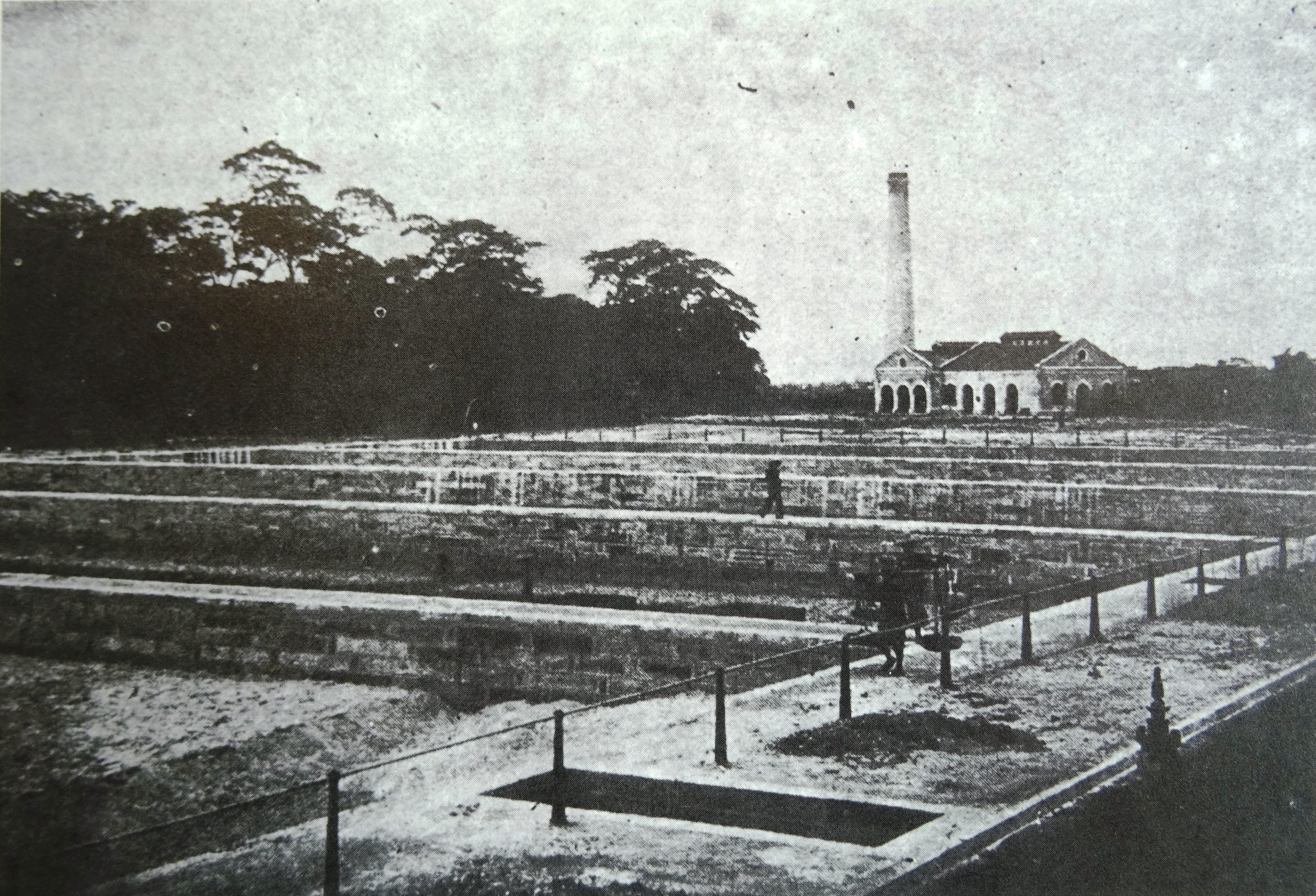 The Tsing Poo Water Plant，Canton in old times.